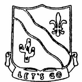 Origional Crest of the 153rd Infantry Regiment, as approved by the Center for Military History, 30 June 1930. The crest was amended following WWII to add a Polar Bear to represent the unit's service in Alaska during the war. s